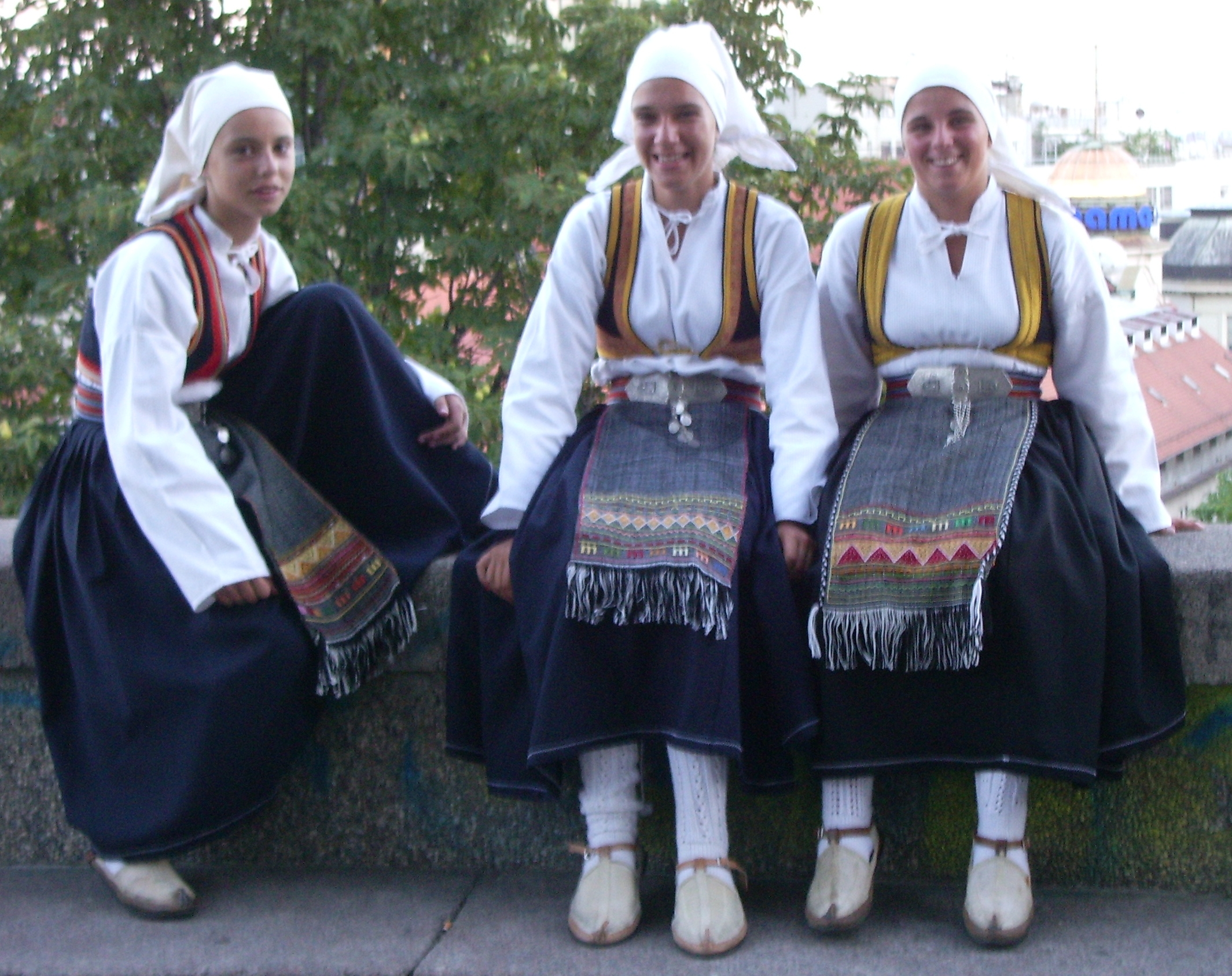 Croatian women's costumes from the town of Neum in Bosnia (2007)